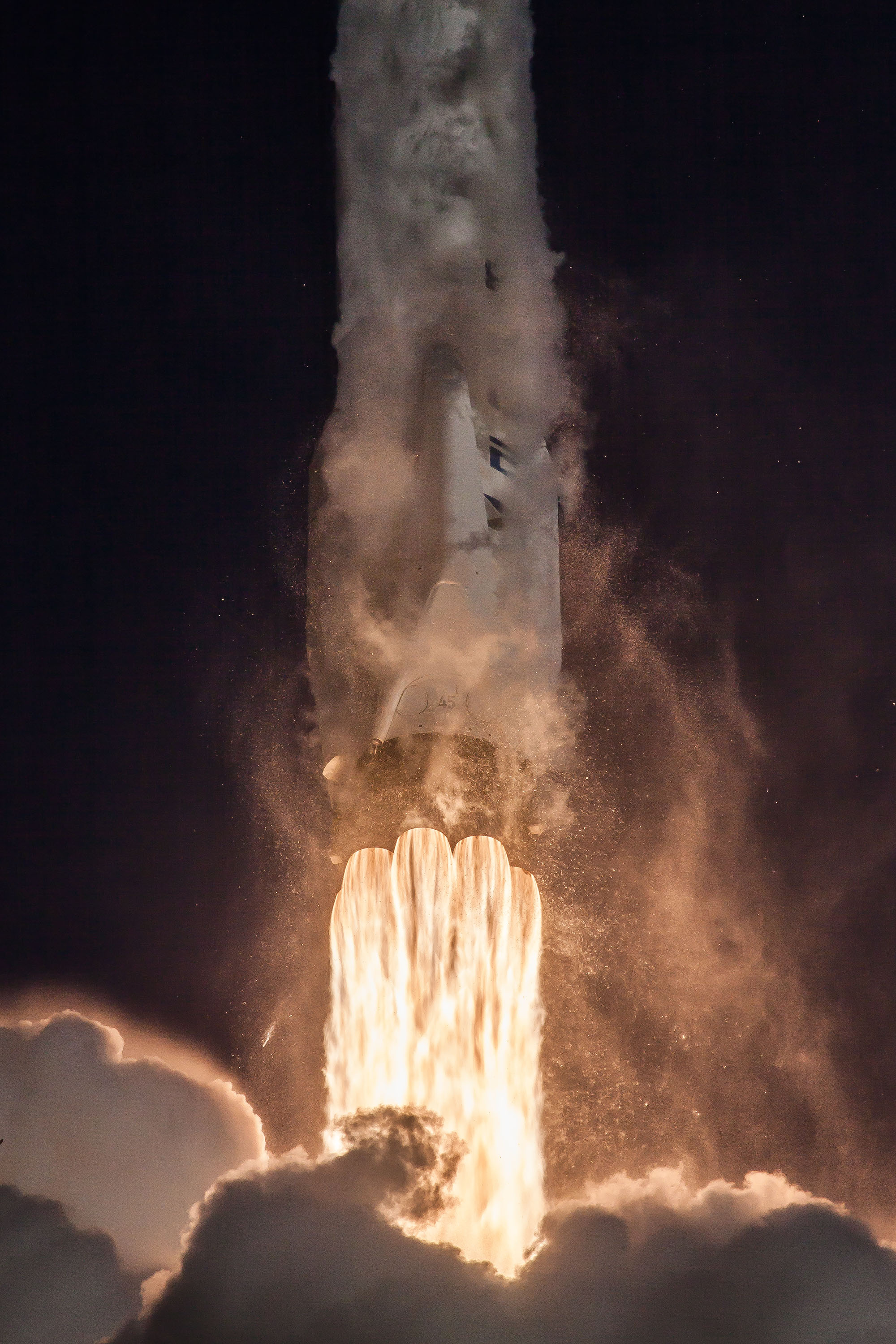 TESS Mission